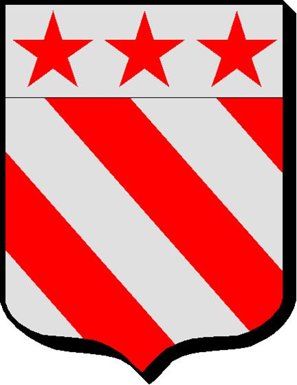 Coat of arms of the Achard of Vérac Family (France, Aquitaine)